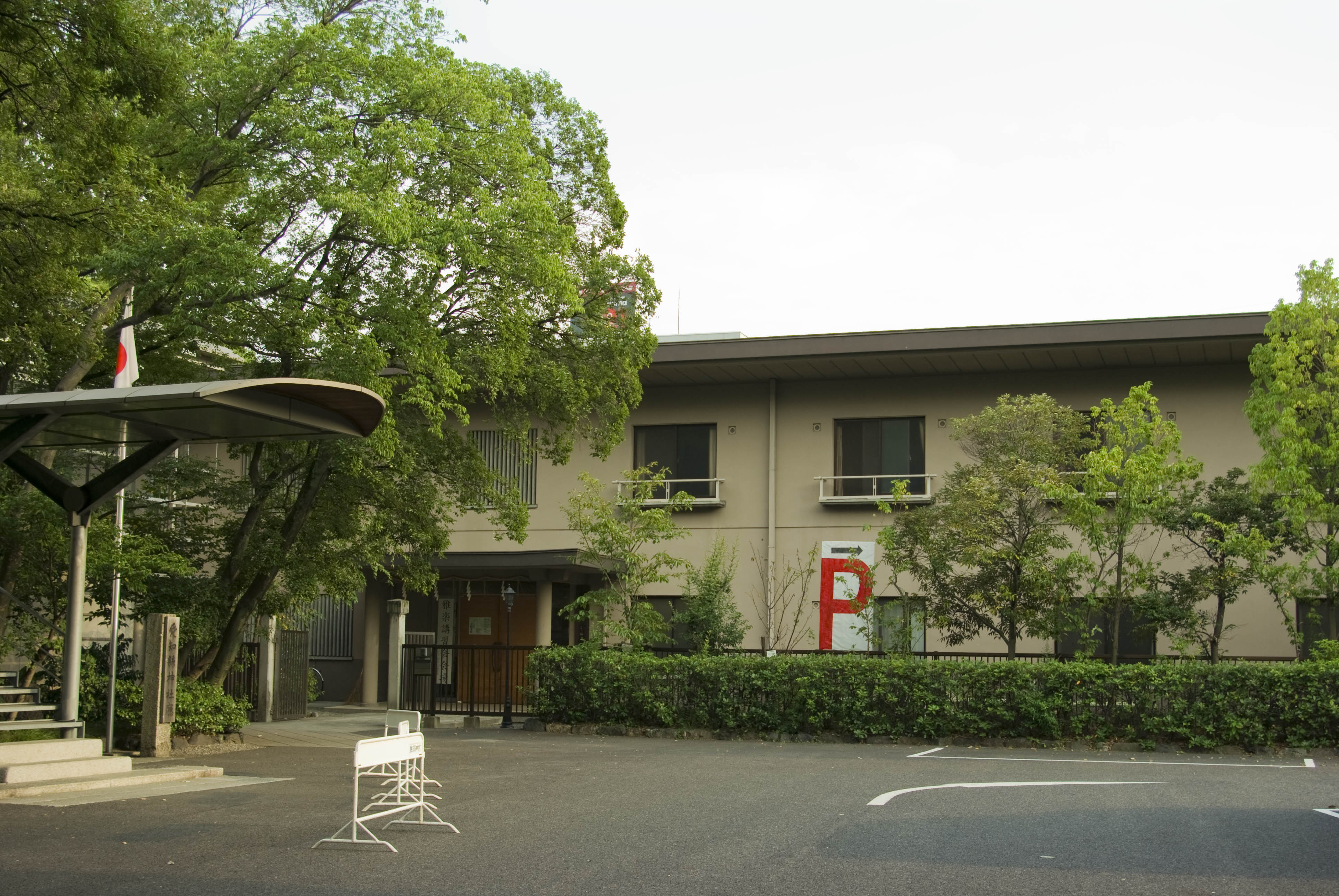 Shinto priests training school within the precincts of Atsuta Shrine